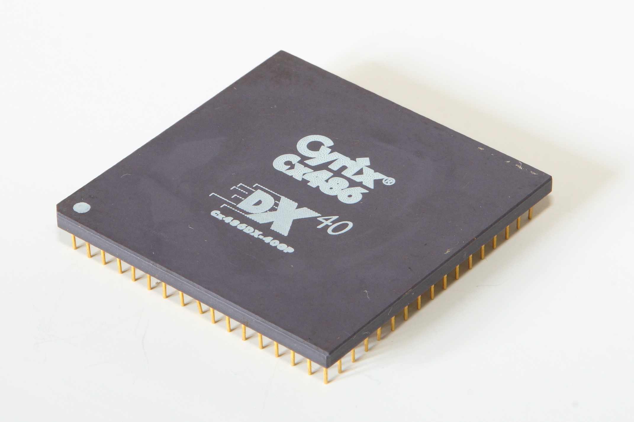 Cyrix 486 DX 40MHz Camera data Camera Canon EOS 30D Lens Canon EF 24-70 mm 2.8 L USM Focal length 70 mm Aperture f/19 Exposure time 15 s Sensivity ISO 100 Image Editing Programs Canon Digital Photo Professional